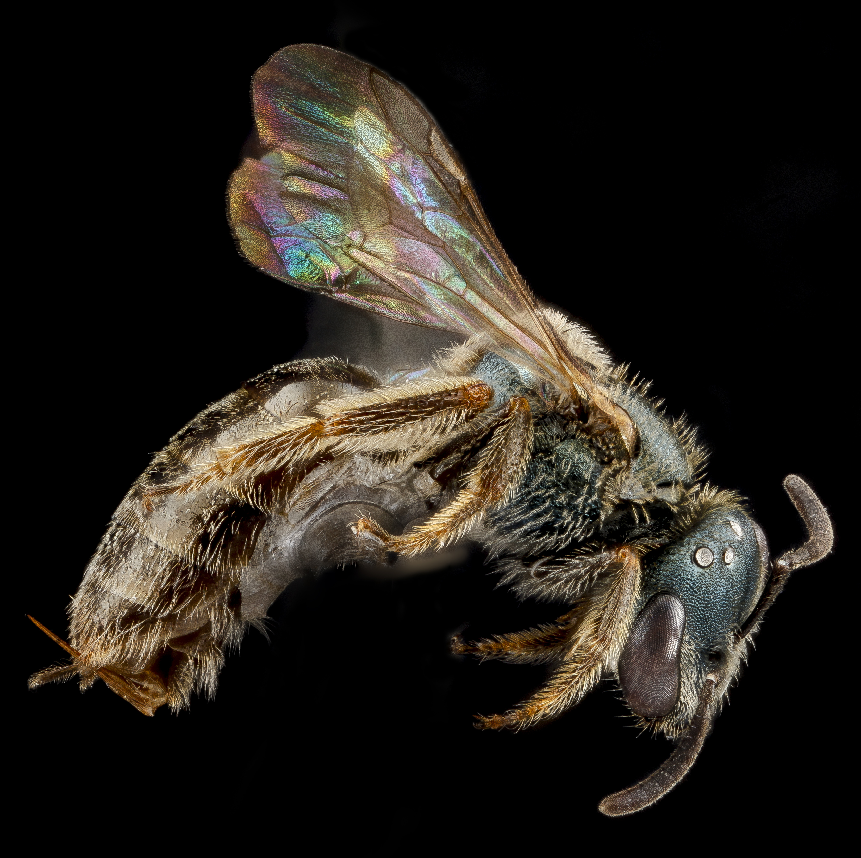 Lasioglossum creberrimum, Big Thicket National Preserve, Texas